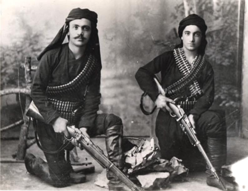 Pontian Greek Soldiers